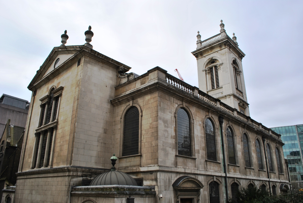 Church of St Andrew